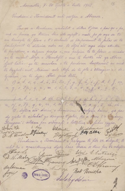 The official decision on the final Albanian alphabet, chosen by Congress of Monastir, 1908Shqip: Vendimi i Komisionit të ngritur në Kongresin e Manastirit për alfabetin e gjuhës shqipe.